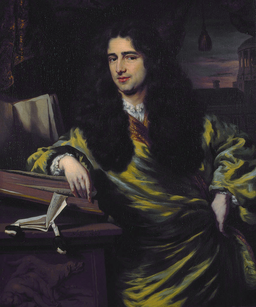 Cornelis Munter (1652-1708) oil on canvas 56 x 47,5 cm signed b.l.: MAES. 1679